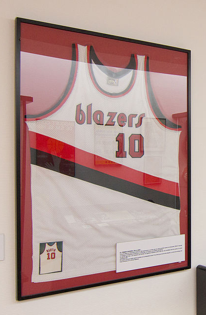 FIBA Hall of Fame, Alcobendas, Community of Madrid, Spain. Fernando Martín jersey